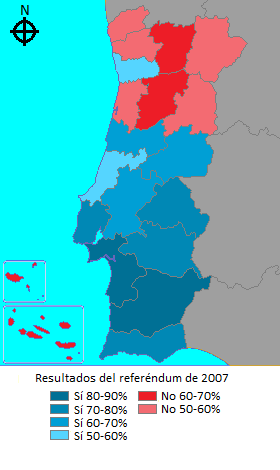 Results of the Portuguese referendum 2007